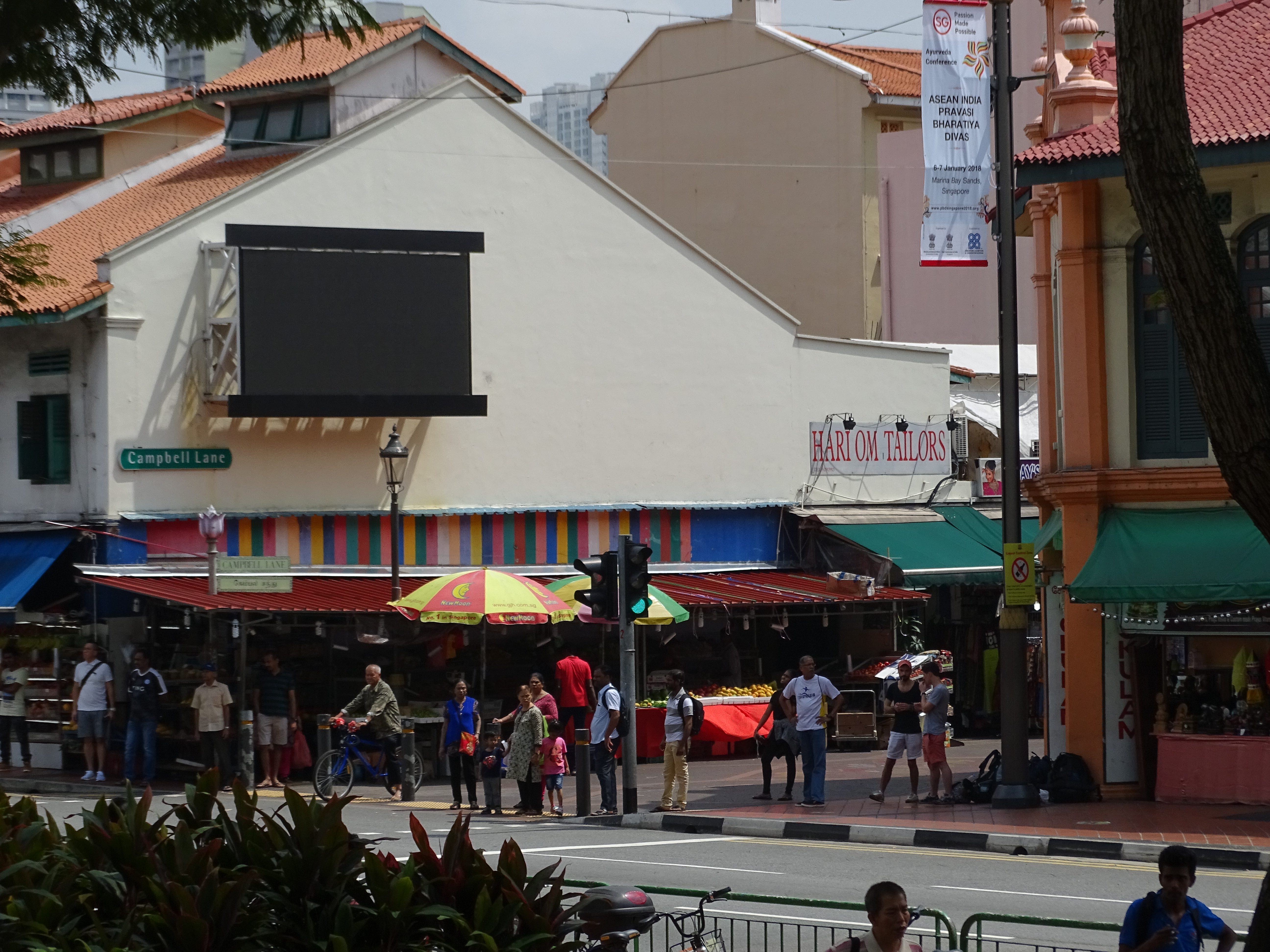 Little India, Singapore, Campbell Lane / Serangoon Road